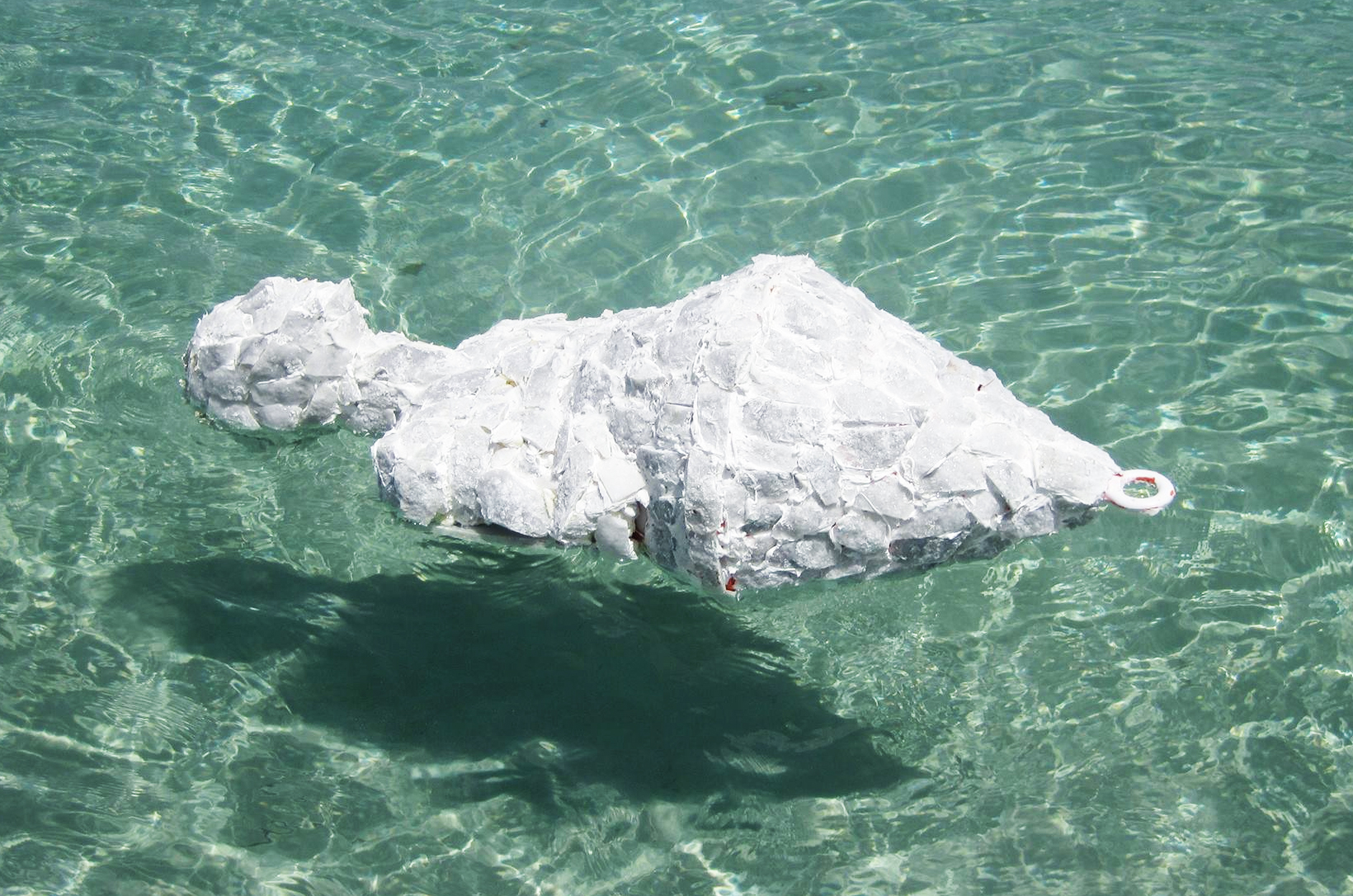 "Swimming Rocks" Art Gallery of Kırmızı Ardıç Kuşu, Gallery Metazori